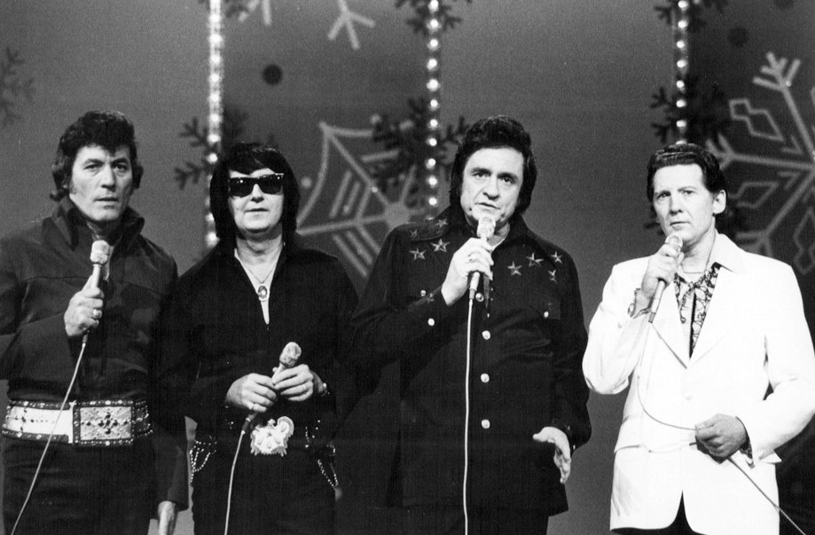 Photo of (from left) Carl Perkins, Roy Orbison, Johnny Cash and Jerry Lee Lewis from the 1977 Johnny Cash Christmas Special television program.